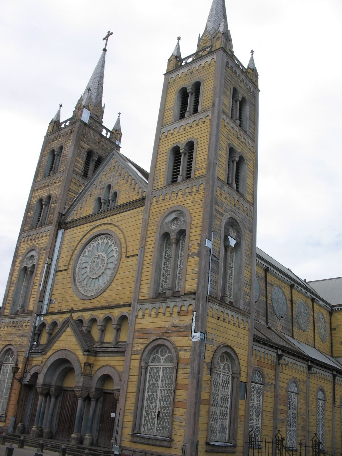 Roman Catholic St Peter and St Paul Cathedral in Paramaribo (Suriname). Claims to be the largest wooden building in the Americas.